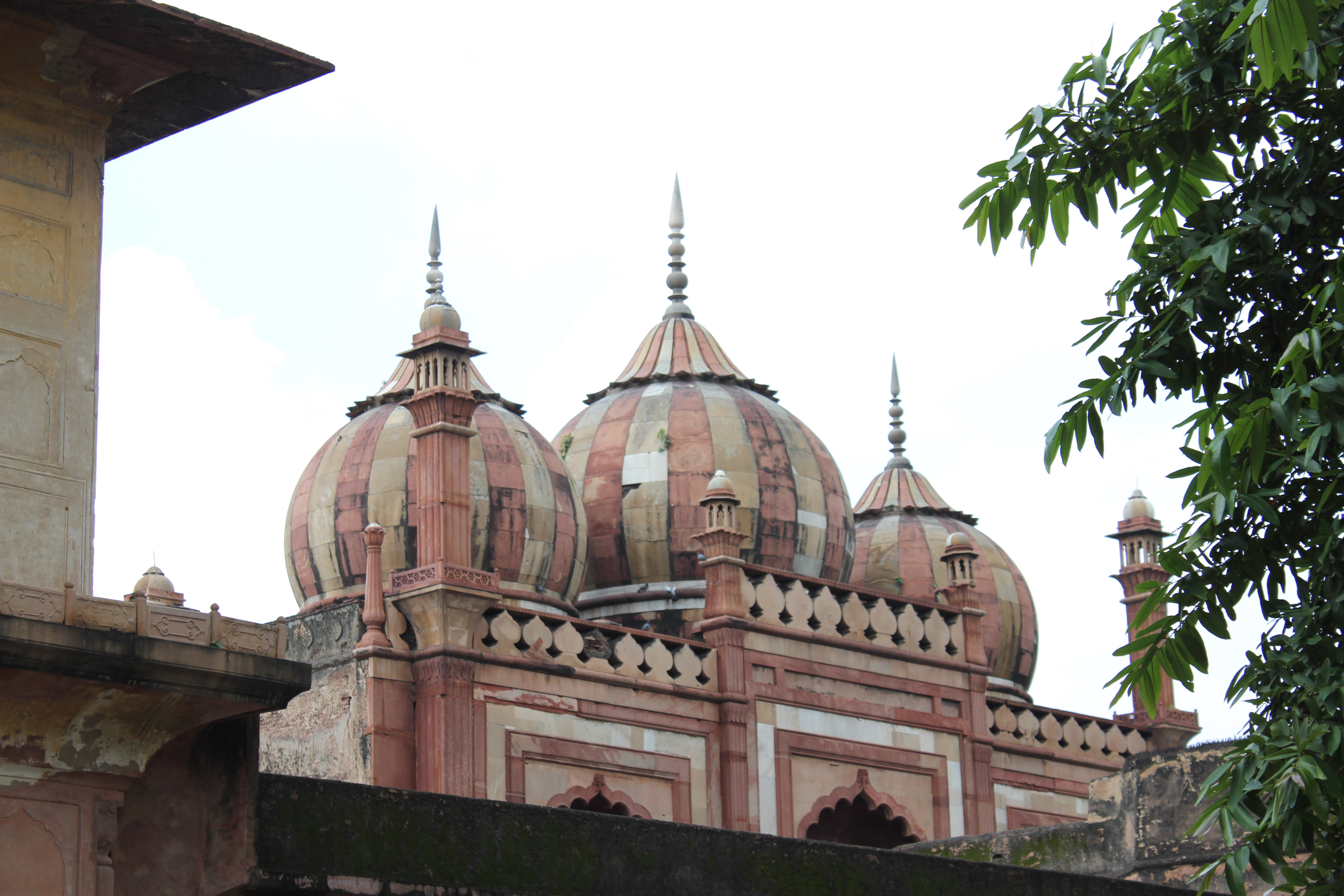 The Mosque located at Eastern side of the gardens at Safdurjang Tomb